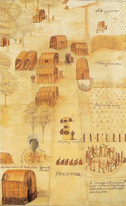 Village of the Secotan Indians in North Carolina. Watercolour painted by John White in 1585.